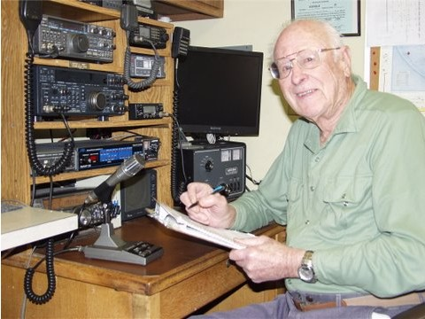 AFA6PF (Dick, California) monitoring the AF MARS Phone Patch Net frequencies